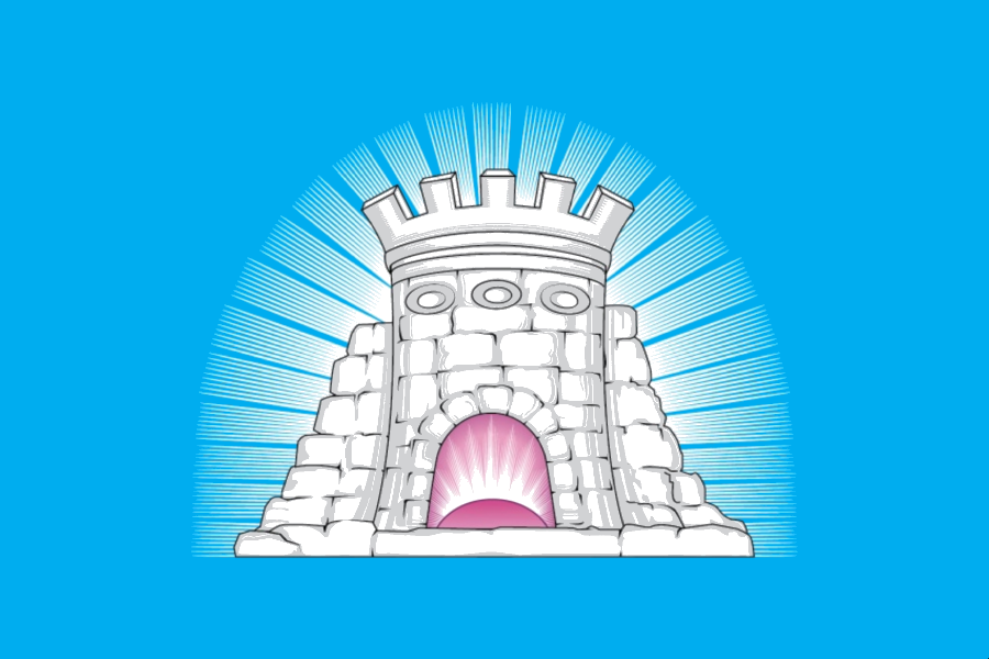 Flag of Zaraisk, Moscow oblast, Russia